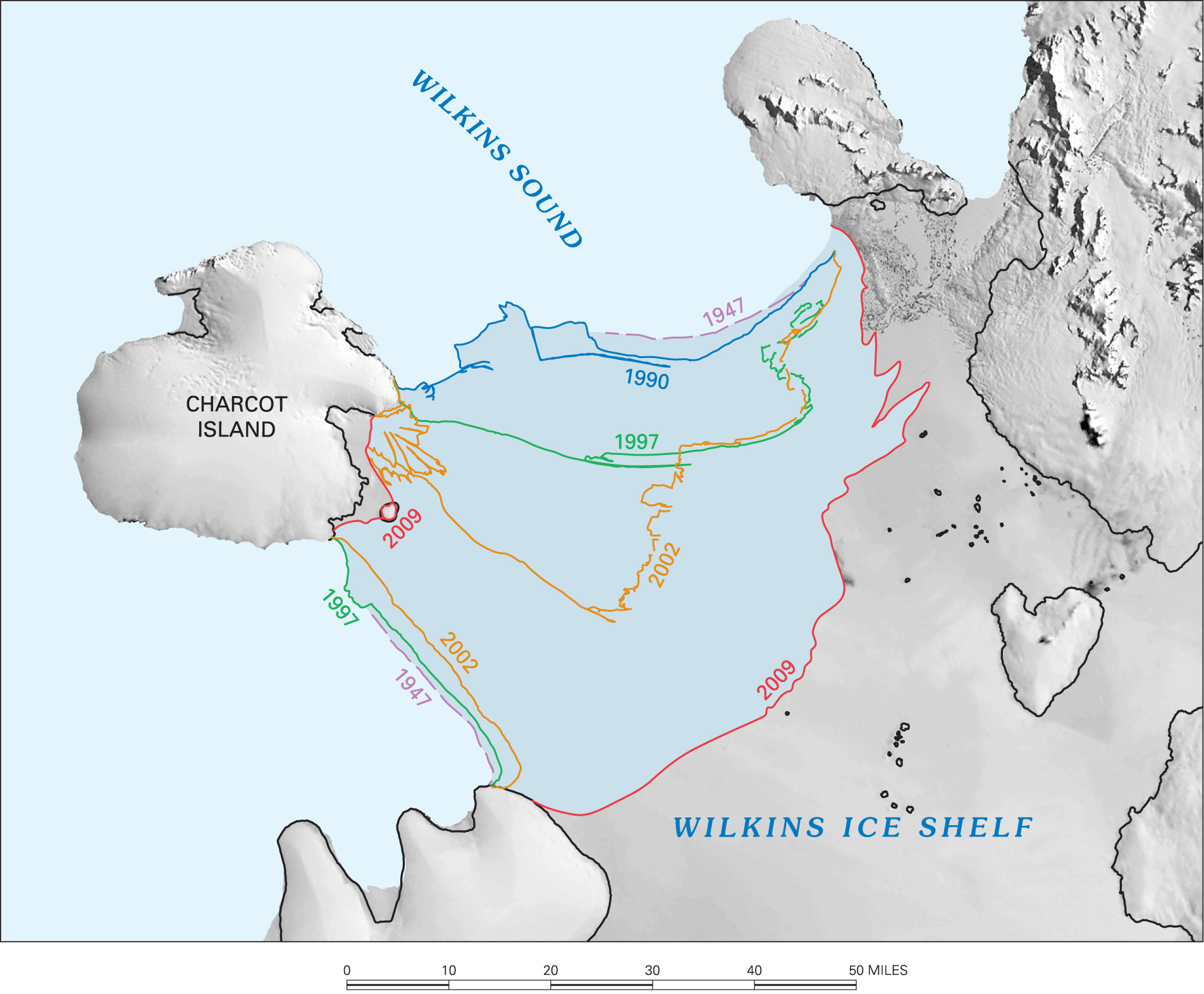 Map depicting the retreat of the Wilkins shelf ice from 1947 to 2009